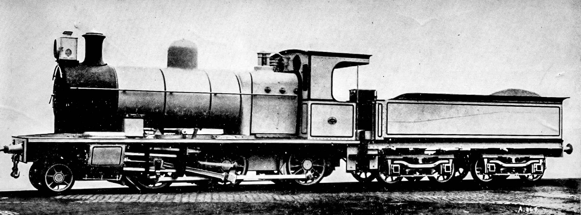 NSWGR Class Z27 Locomotive